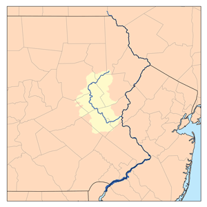 This is a map of the Lehigh River Watershed. I, Karl Musser, created it based on USGS data.